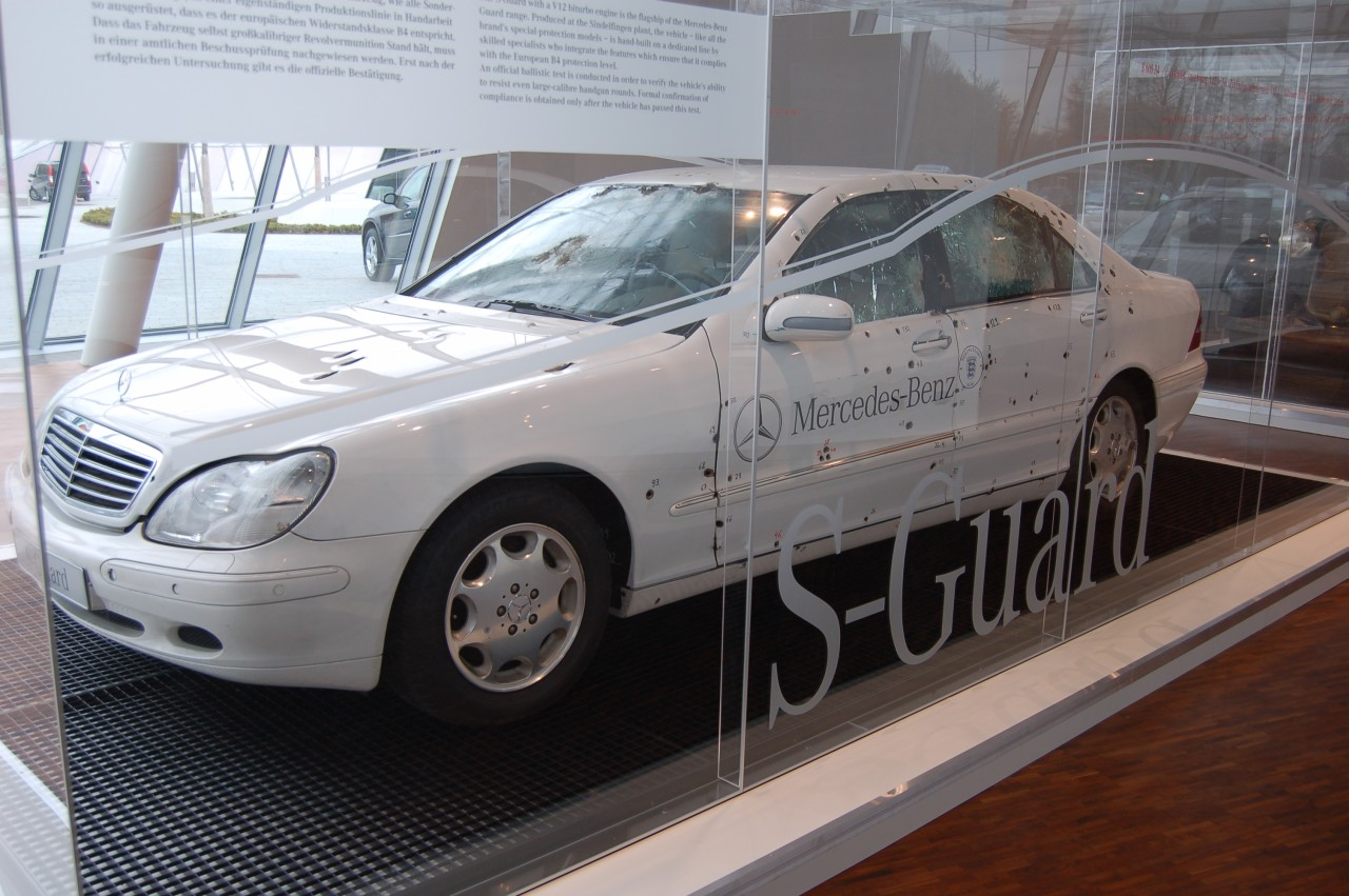 Mercedes S-Guard armored car complete with bullet holes at the Mercedes-Benz museum, Stuttgart.